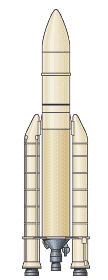 Diagram of Ariane 5 rocket.